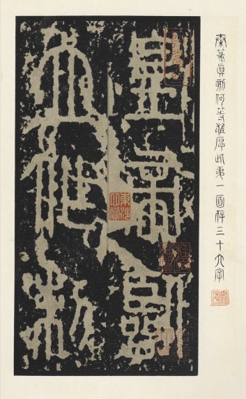 "Attributed to Li Si 李斯(d. 208 BCE). Rubbing of Qin Taishan keshi 秦泰山刻石 (Qin Stone Carving at Mt. Tai). Stone carving, Qin Dynasty, 219 BCE. Rubbing, Northern Song Dynasty (early twelfth century). Ink on paper, h. 27.8 cm. Calligraphy Museum, Taito , Tokyo". In: Sena, Yun-Chiahn C. (2015, p. 44)